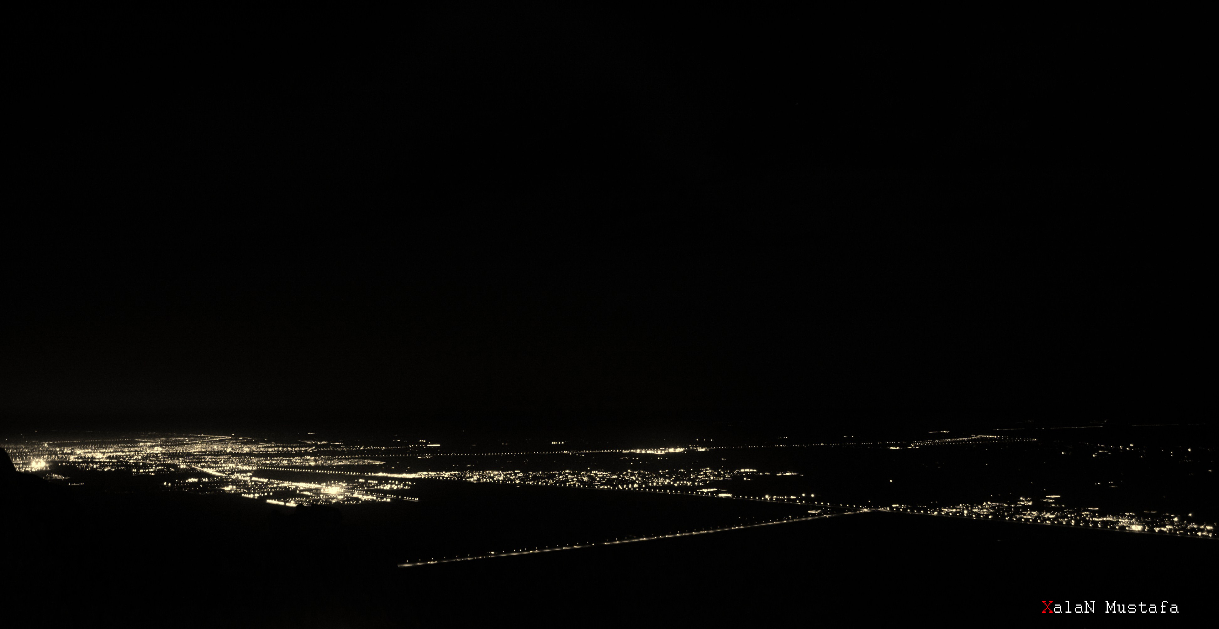 Alain at this time of the day, finding stars when everyone is asleep dreaming of having one , this photo was taken while mounting it still on the fences as it was hard for my camera to focus because of the darkness and to get the desired results .